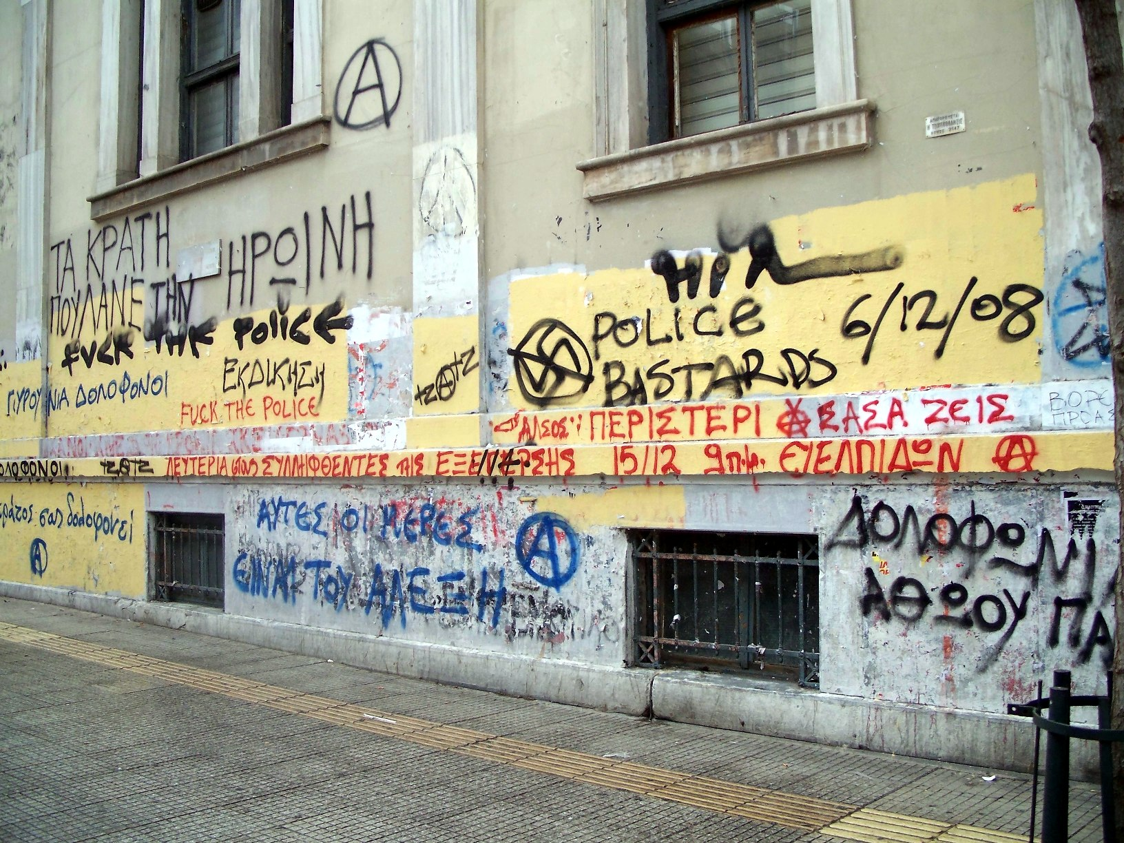 Anti police graffiti on the walls ot Athens, during the riots of 2008.